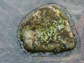 A Stone In A Pond In A Backyard, subject of meditation and art